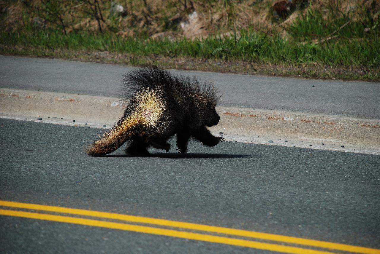 Porcupine violating traffic rules in downtown Juneau.